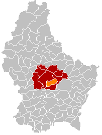 Own edit of Kanton MerschLocatie.png